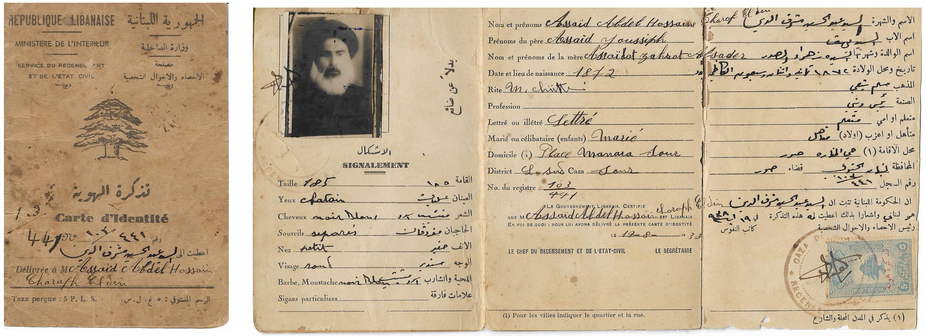 Passport of the Shia scholar Sayed Abudl Hussein Sharafeddine in Tyre/Sour, Lebanon